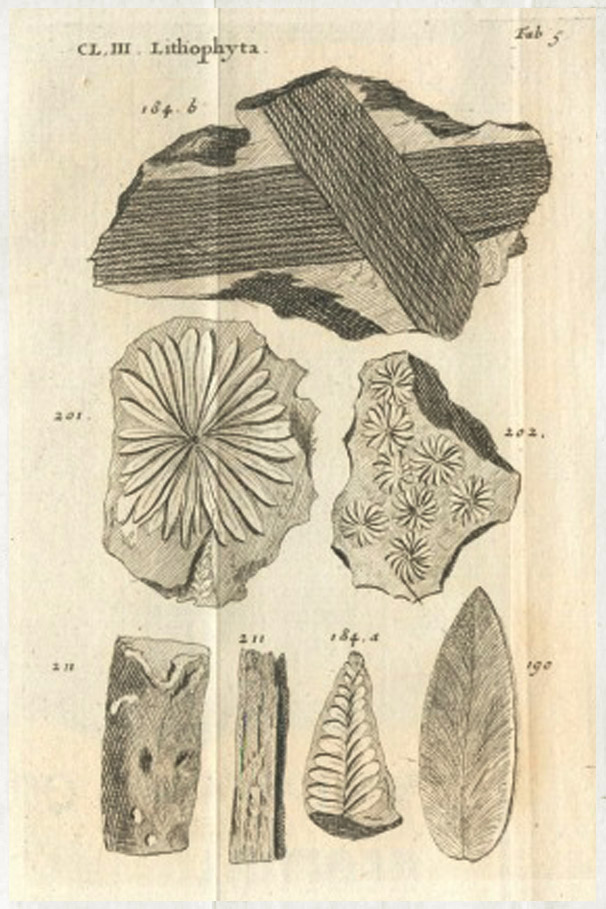 Plate 5 of Lythophylacii Britannici Ichnographia, published in 1699 by Edward Lhuyd